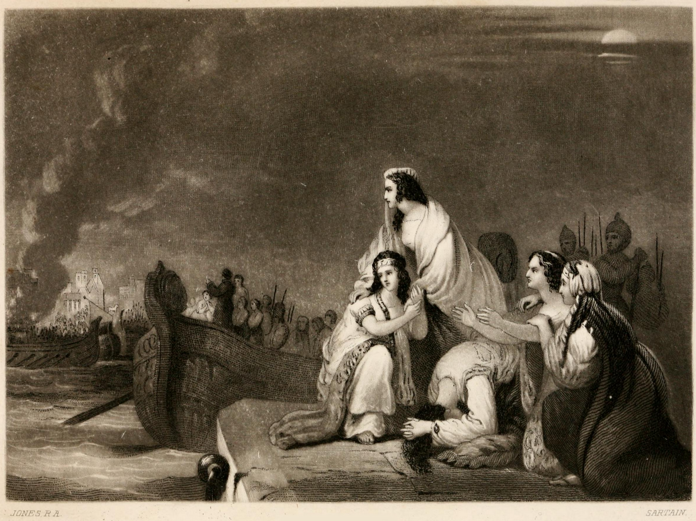 “The Destruction of Troy,” engraved by John Sartain from a painting by “Jones, R. A.” (probably George Jones)